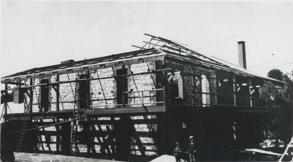 Kadlunga Homestead being renovated in 1919. Photograph; 20.5 cm x 11.5 cm. Creator unknown, but forms part of the Mintaro Collection.